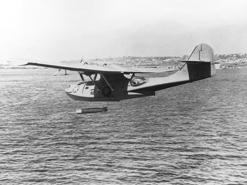 A U.S. Navy Consolidated PBY-5A Catalina patrol bomber drops a Mark XIII aircraft torpedo during tests in 1942-1943.